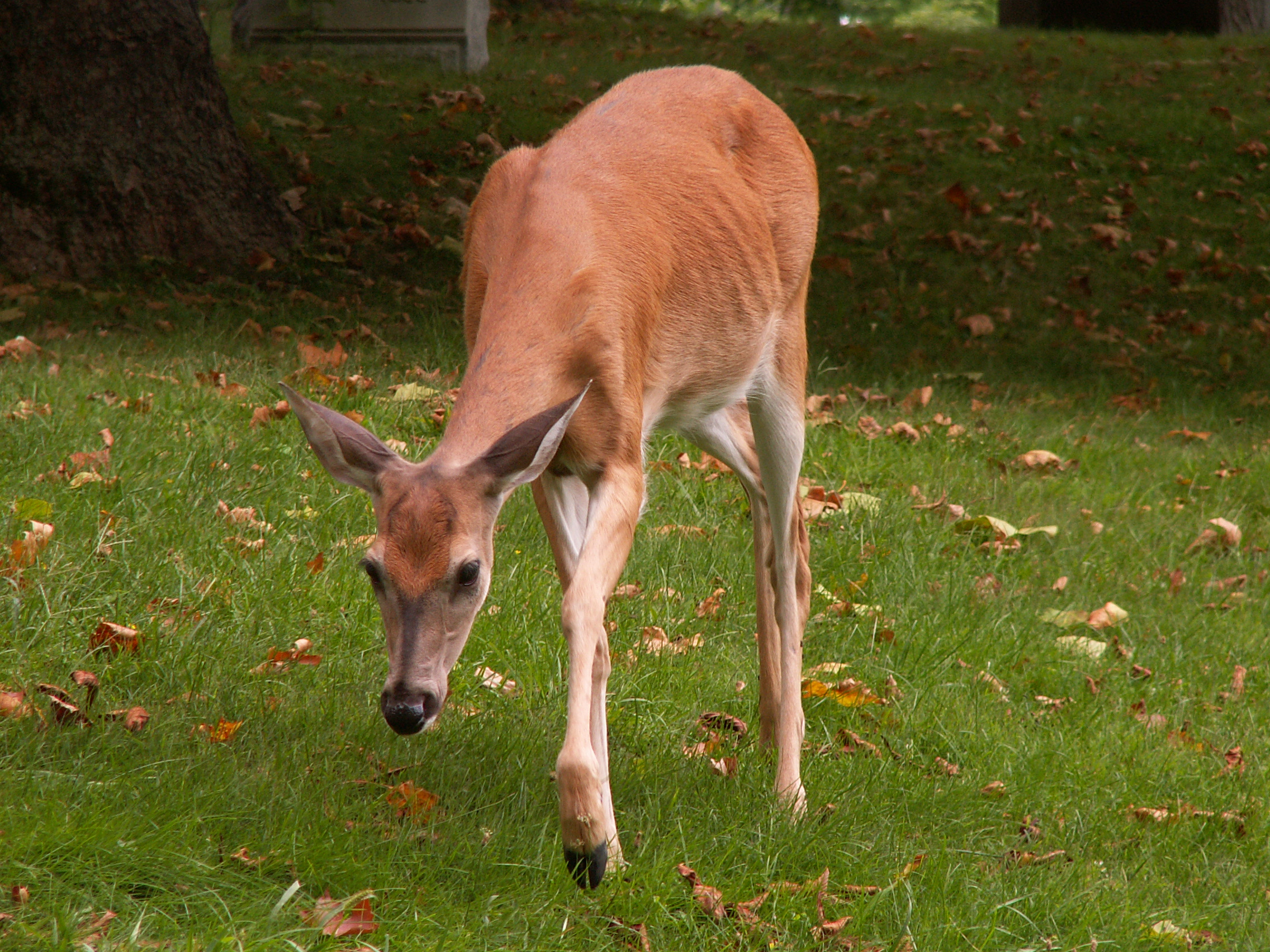 A doe browses in the Allegheny Cemetery, a landscaped rural cemetery in inner-city Pittsburgh